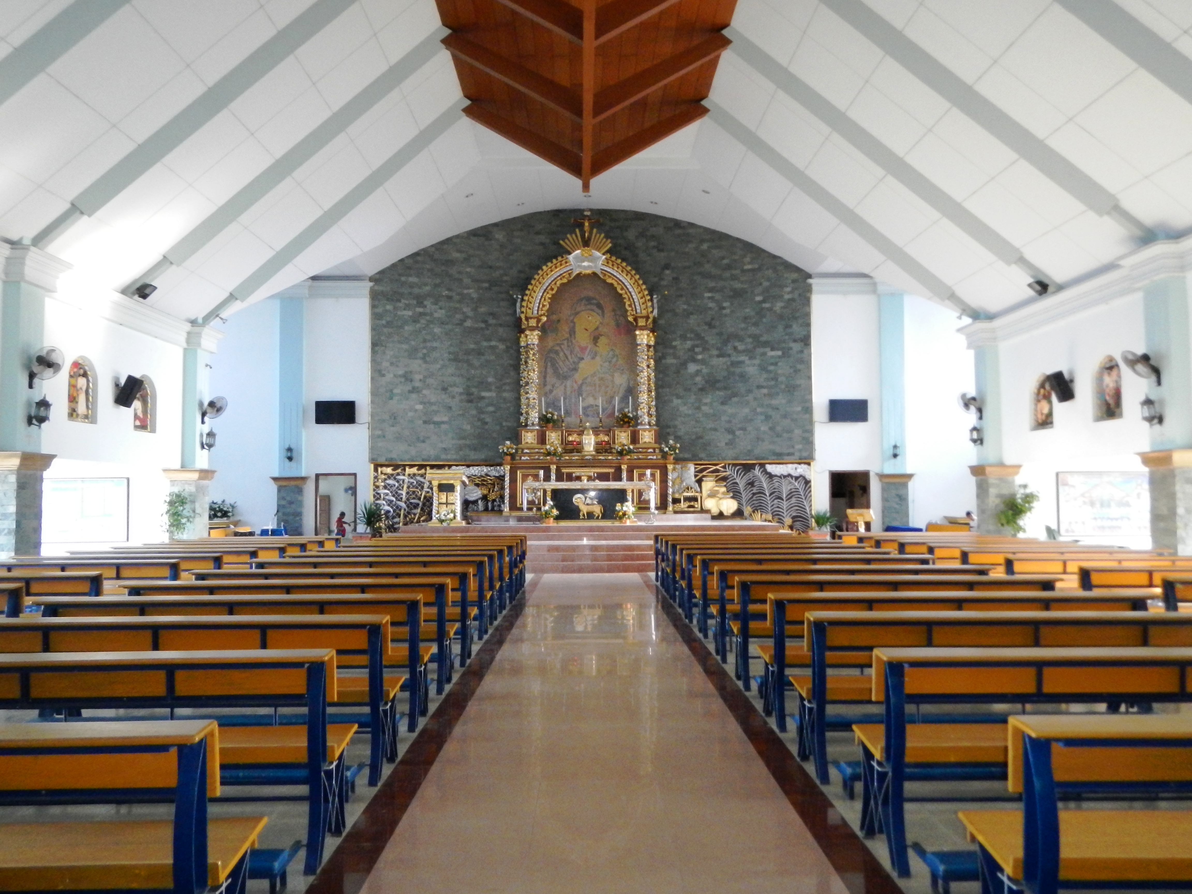 Barangay San Pedro, Hagonoy, Bulacan - High School in front of the Barangay Hall and gateway to its Chapel of Saint Peter and Engr. Manuel R. Contreras Memorial Production Center, Paombong Water District Pumping Station beside the Our Mother of Perpetual Help Parish Church.